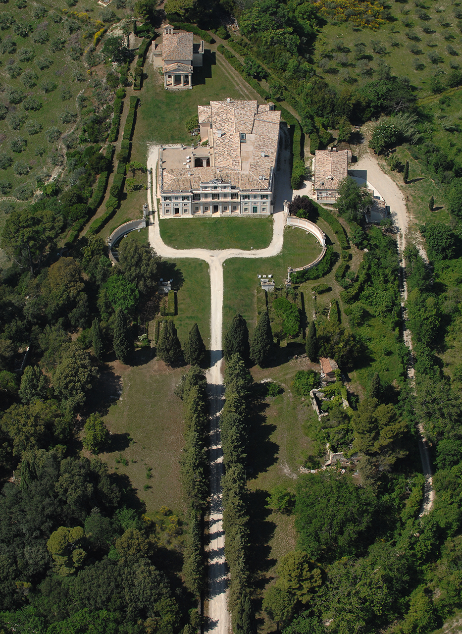 Villa Pianciani from above showing all parts of the Complex, such as the Villa, the Chapel, the Secret Garden and the Park